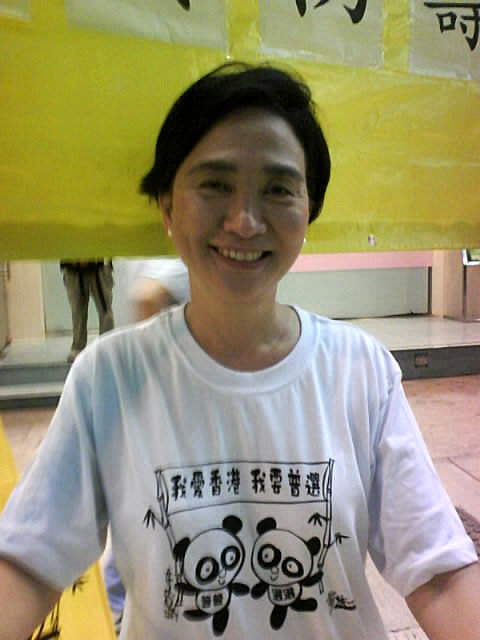 Emily Lau convenor of The Frontier pro-democracy party in Hong Kong